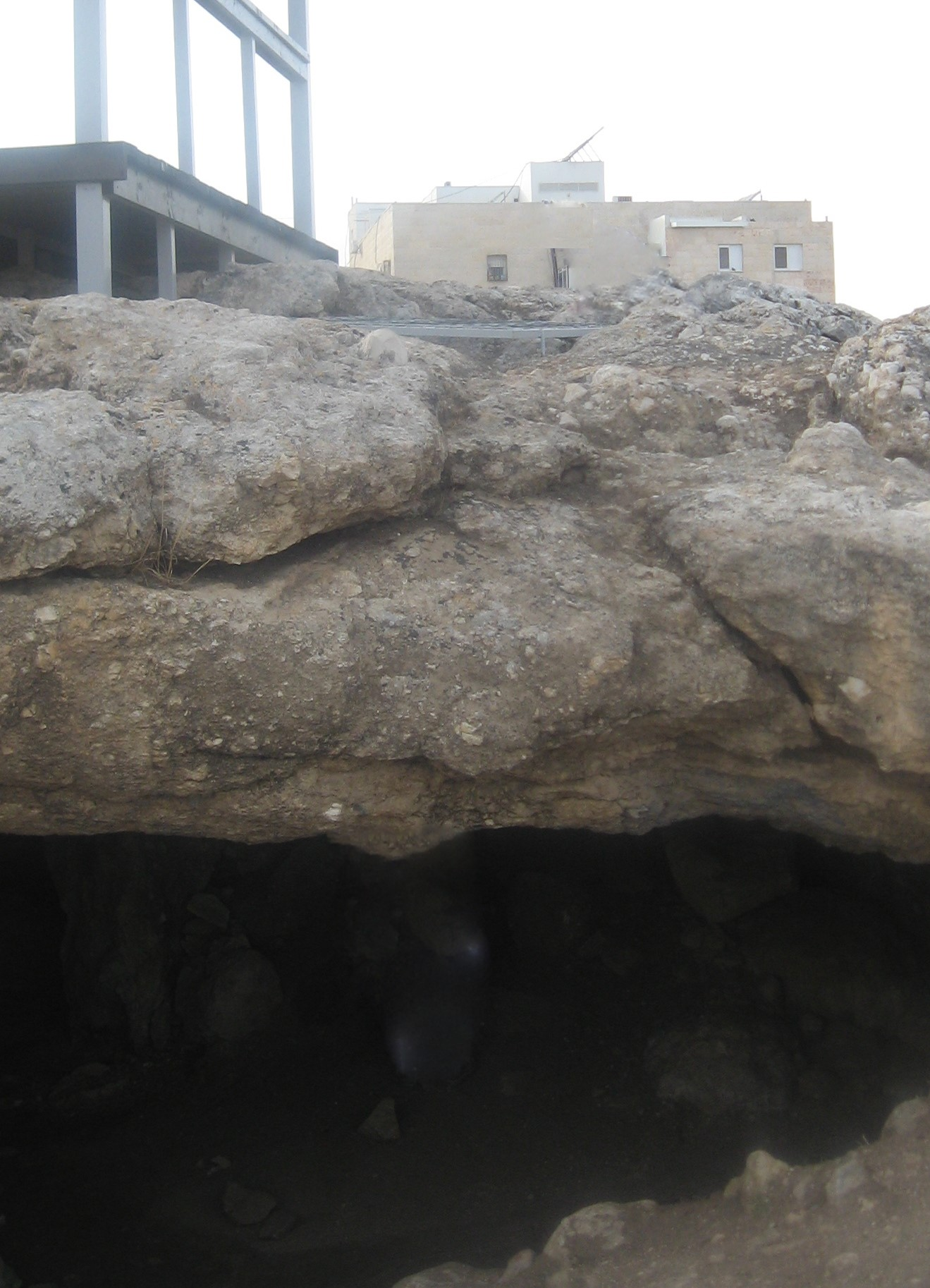 Khirbet bad Issa